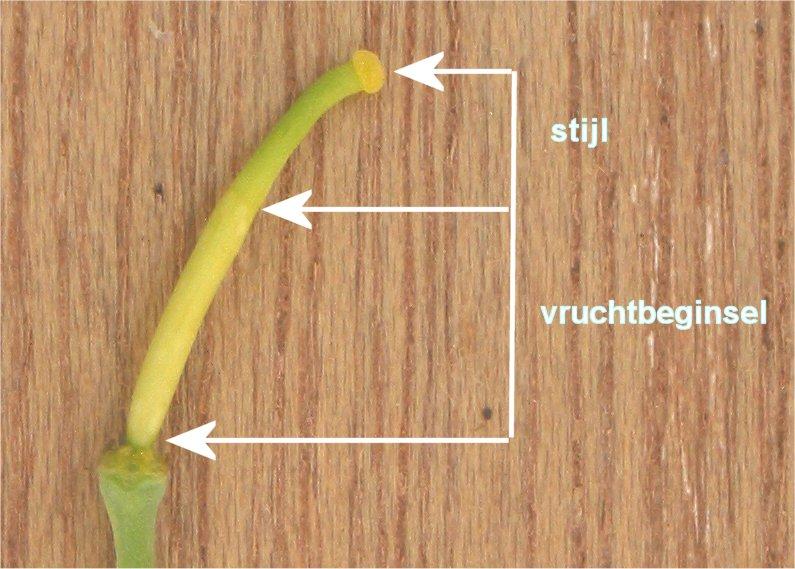 Brassica oleracea (Curly kale) pistil (stamper)